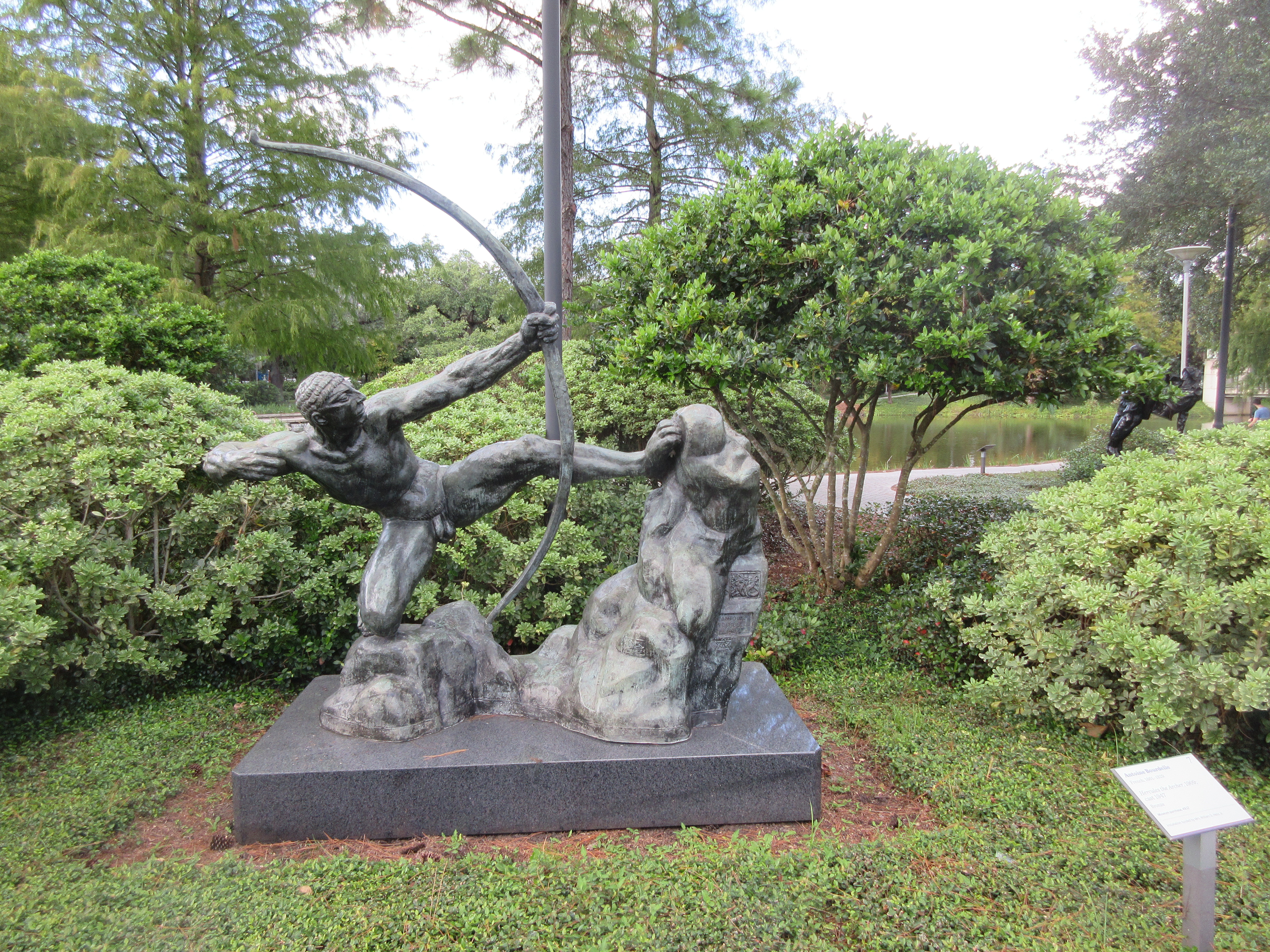 New Orleans Museum of Art Sculpture Garden in City Park, New Orleans. "Hercules the Archer", 1909 sculpture by Antione Bourdelle. For decades this resided in front of the main entrance of the New Orleans Museum of Art (formerly Delgado Museum of Art). Photo by Infrogmation of New Orleans, November, 2017. Free reuse with author attribution in accordance with any of the licenses listed by the author/photographer. Reuse without photo attribution is a violation of copyright.